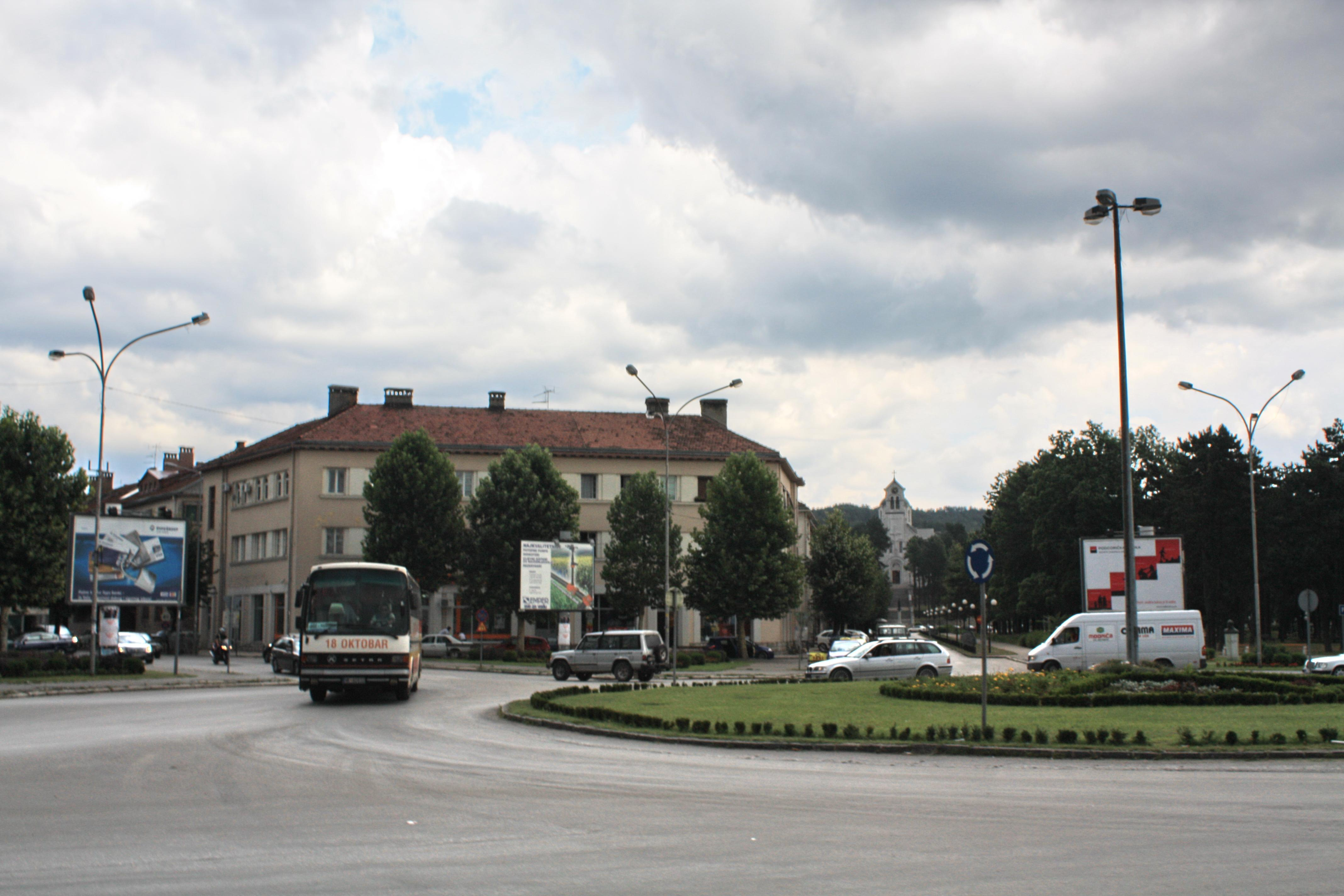 Nikšić, Montenegro - town centre